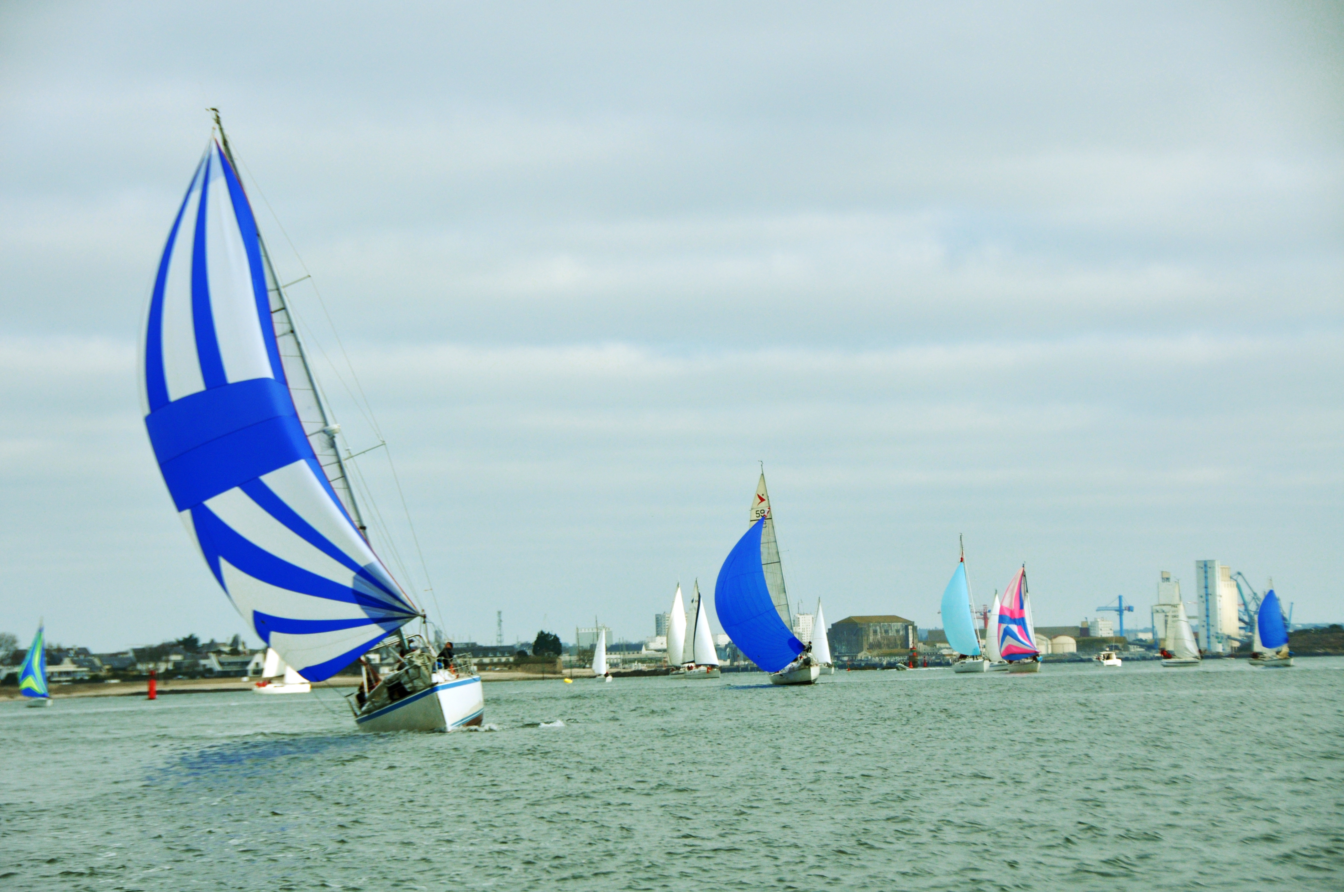 Boats and their spinnaker sails in a regatta in Lorient, France.